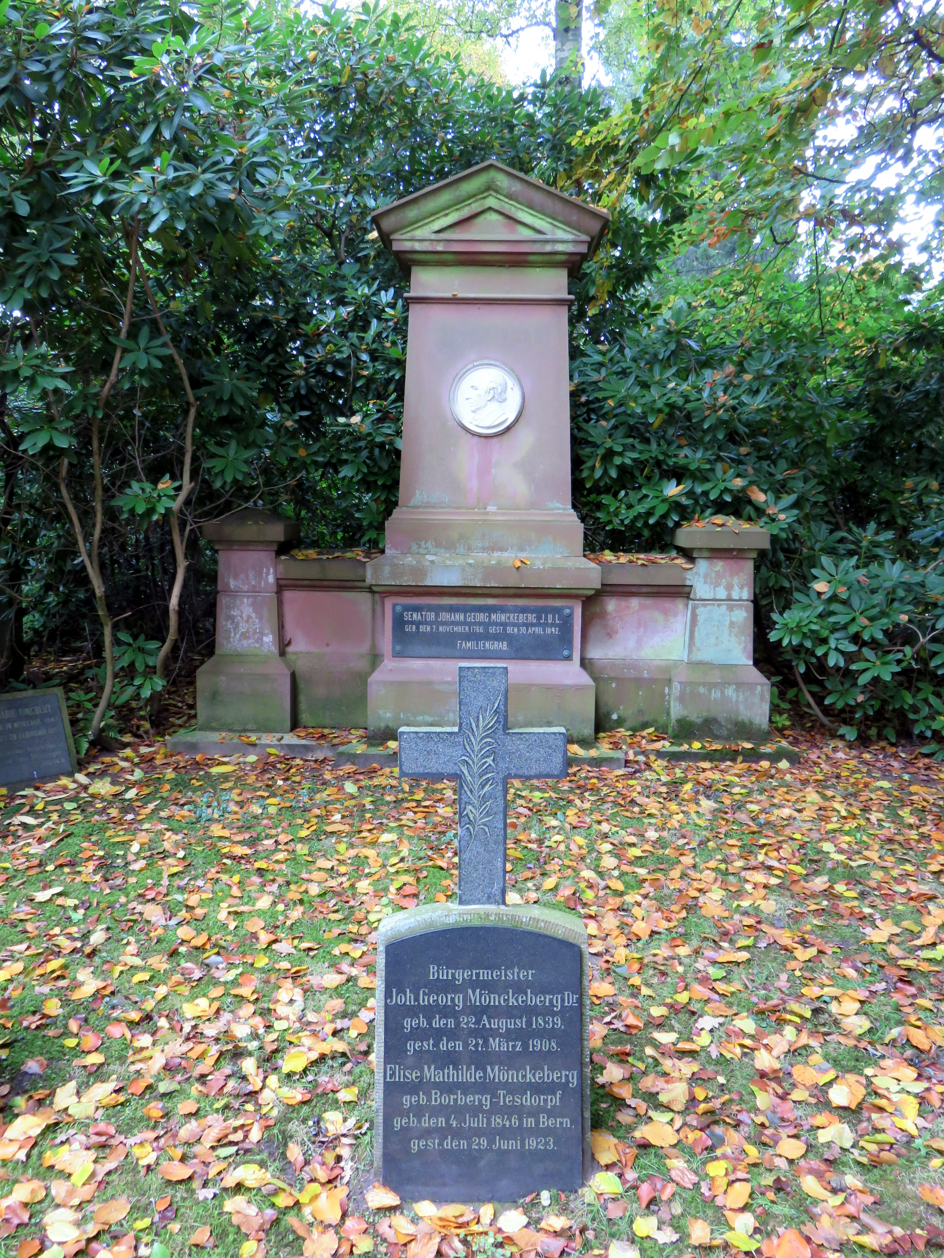 Gravestone for Hamburg politician and mayor Johann Georg Mönckeberg, grave area of Mönckeberg family, Hamburg Cemetery Ohlsdorf (with new cross).